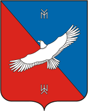 Karmaskaly rayon (Bashkortostan), coat of arms